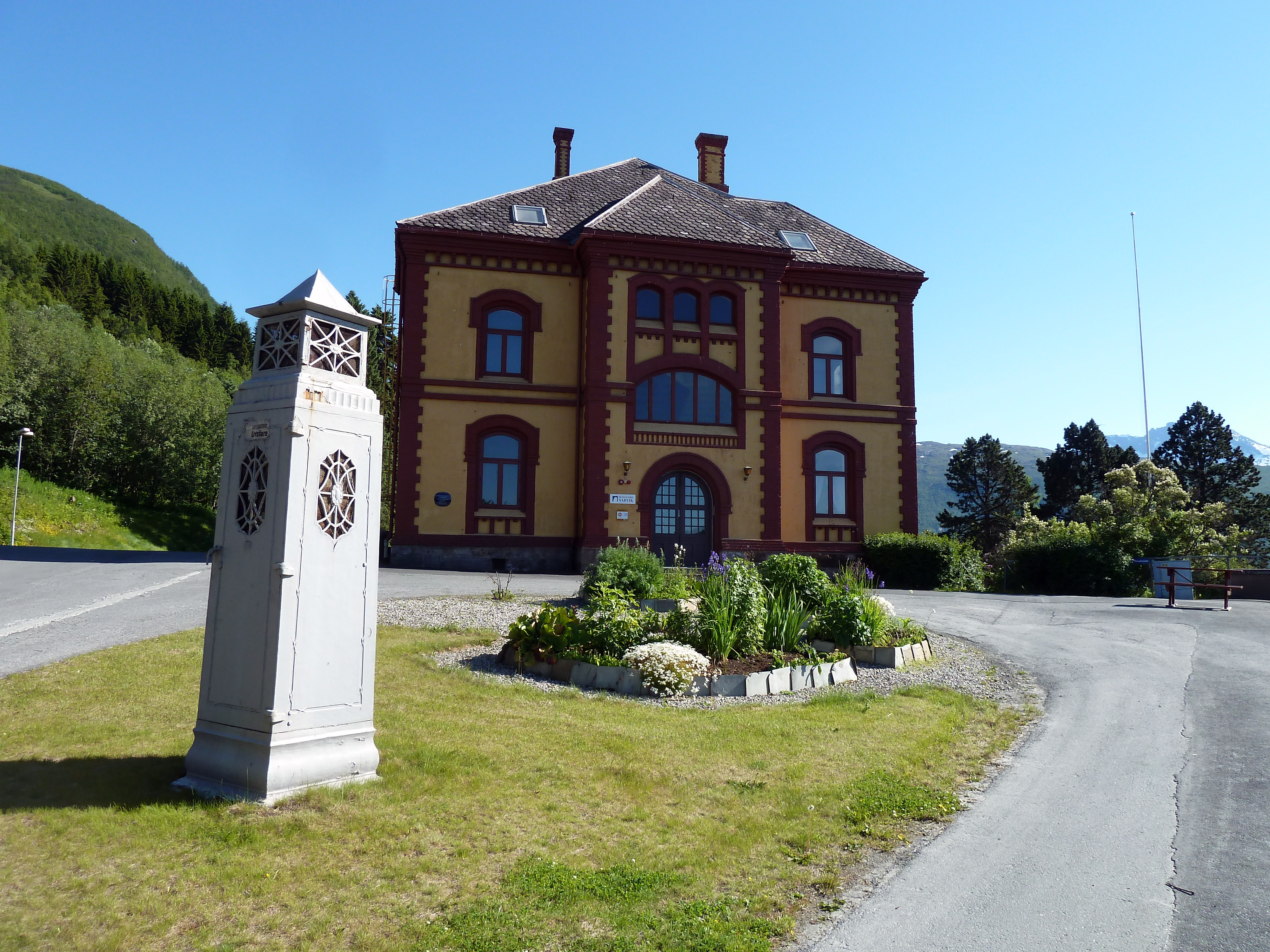 Museum in Narvik. Built 1902 as administration building for the Norwegian Railway Company. Occupied by German forces 1940-1905. Ofoten museum since 1995.